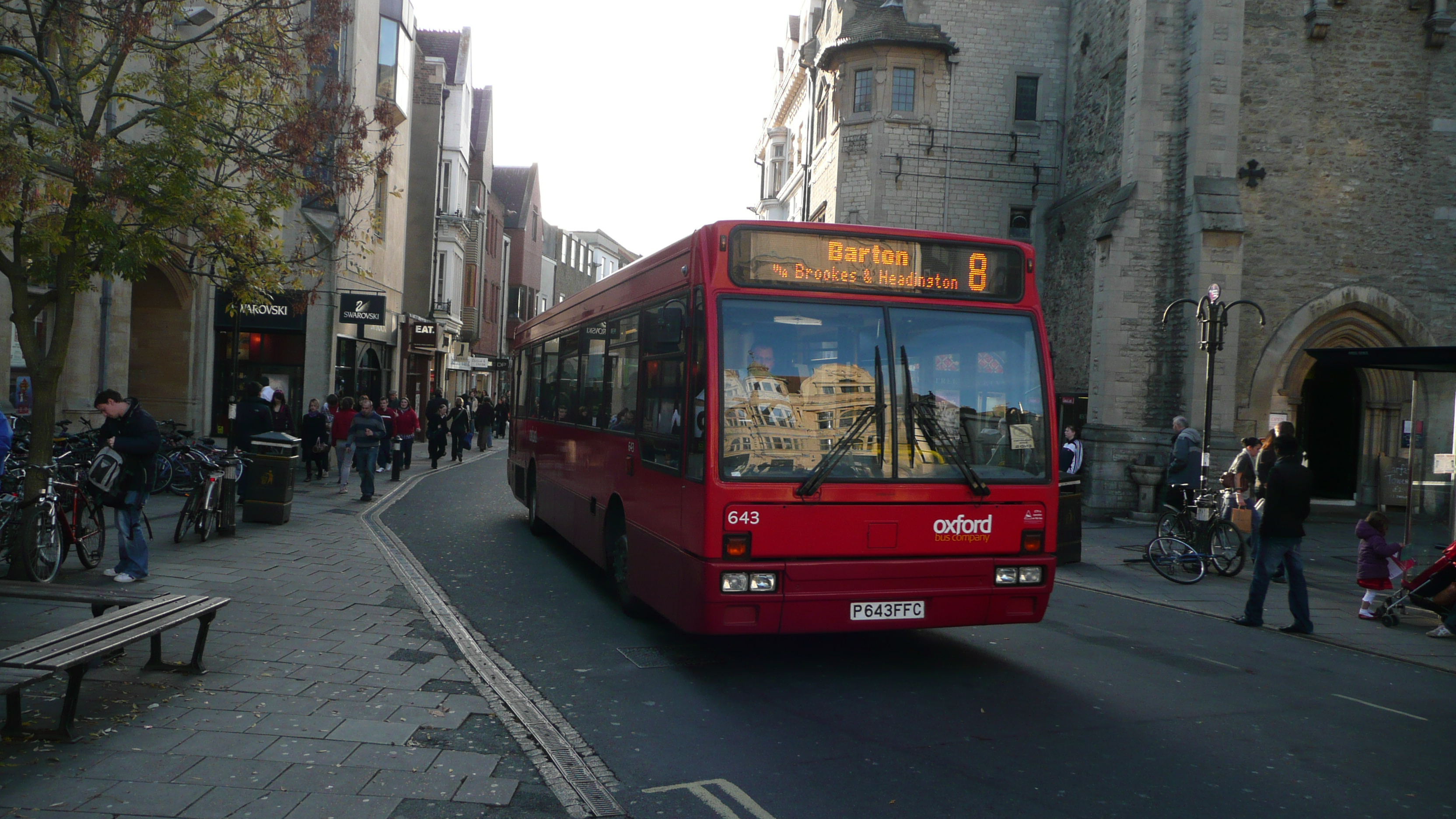 An Oxford Bus Company Volvo B10B/Plaxton Verde bus in Queen Street, Oxford on route 8 to Barton. It is fleet number 643, registration mark P643 FFC.